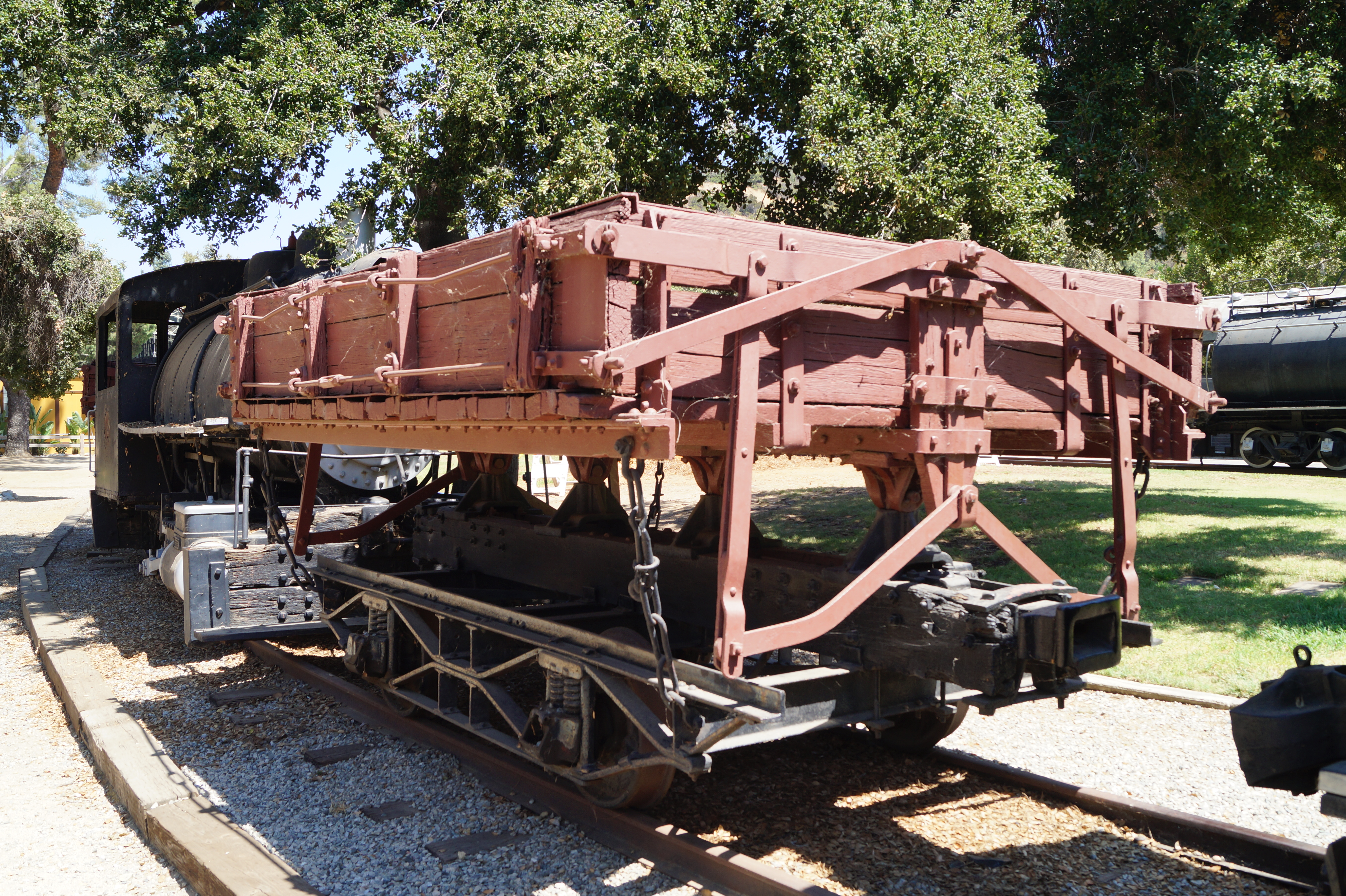 Travel Town Museum is a transport museum dedicated in the northwest corner of Los Angeles, California's Griffith Park. The history of railroad transportation in the western United States from 1880 to the 1930s is the primary focus of the museum's collection, with an emphasis on railroading in Southern California and the Los Angeles area.